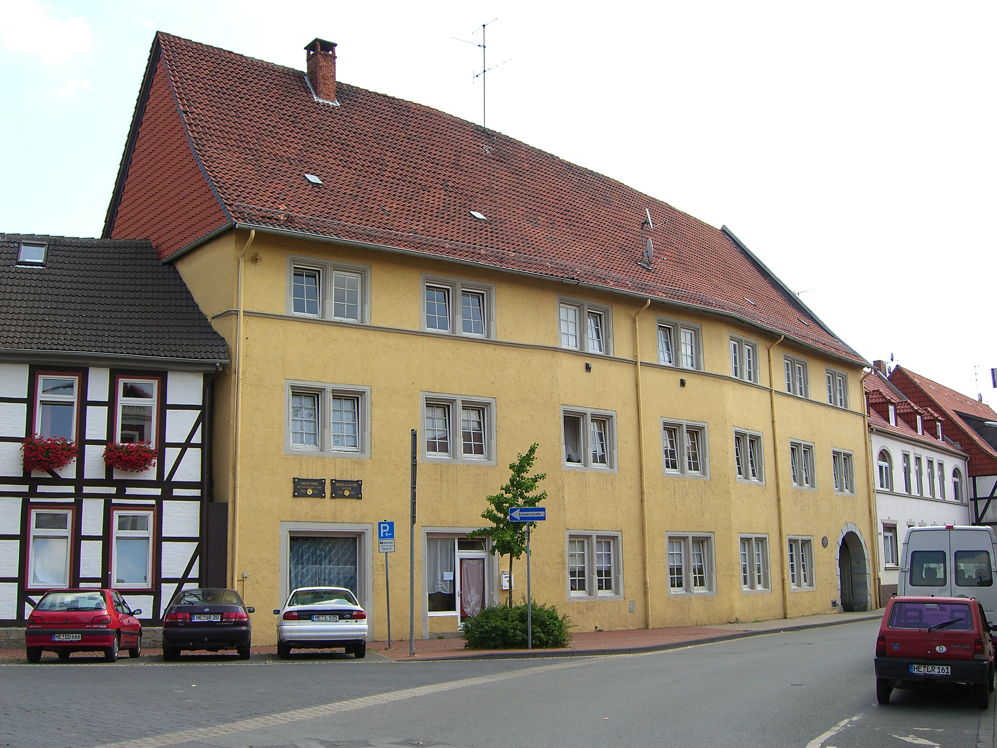 house of professor Hermann Conring in Helmstedt